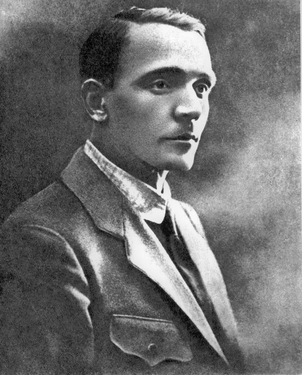 Yanka Kupala (1882-1942), 1919.